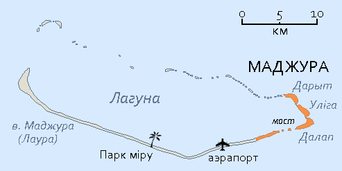 Map of Majuro in Belarusian